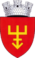 Coat of Arms of Cupcini